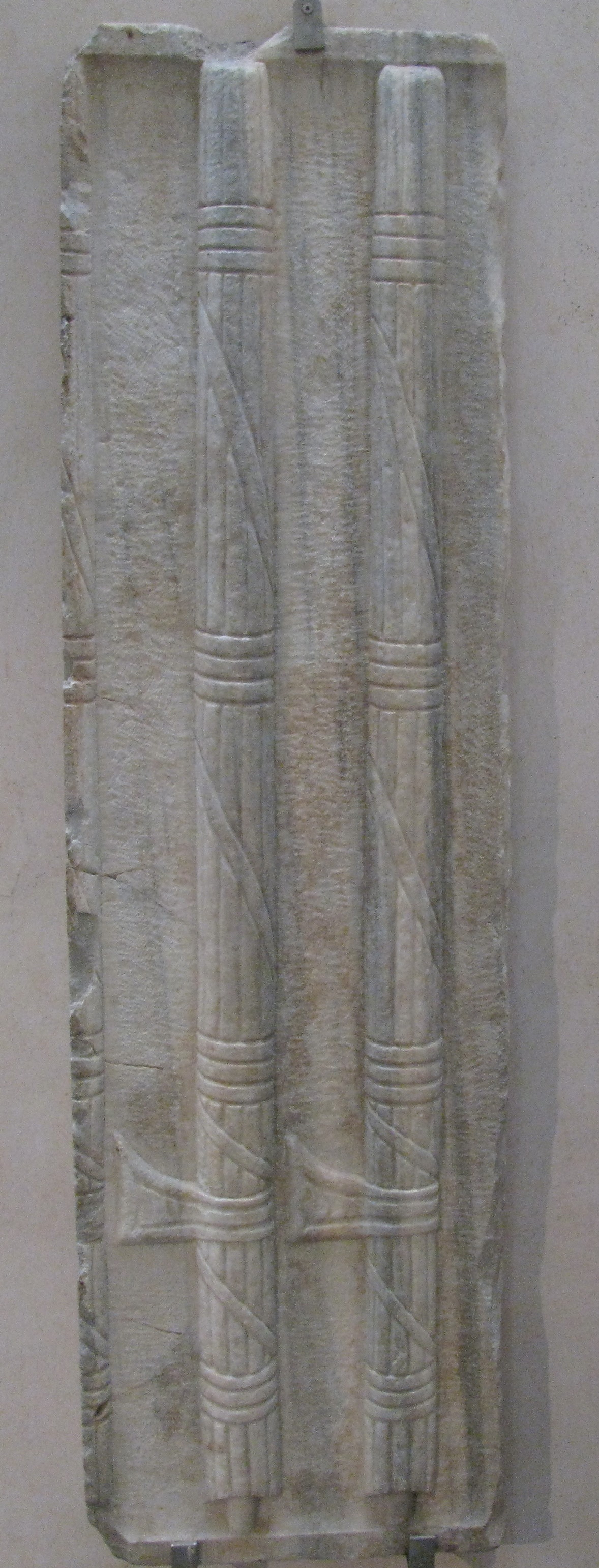 Couple of Fasces. Diocletian's baths museum, Rome